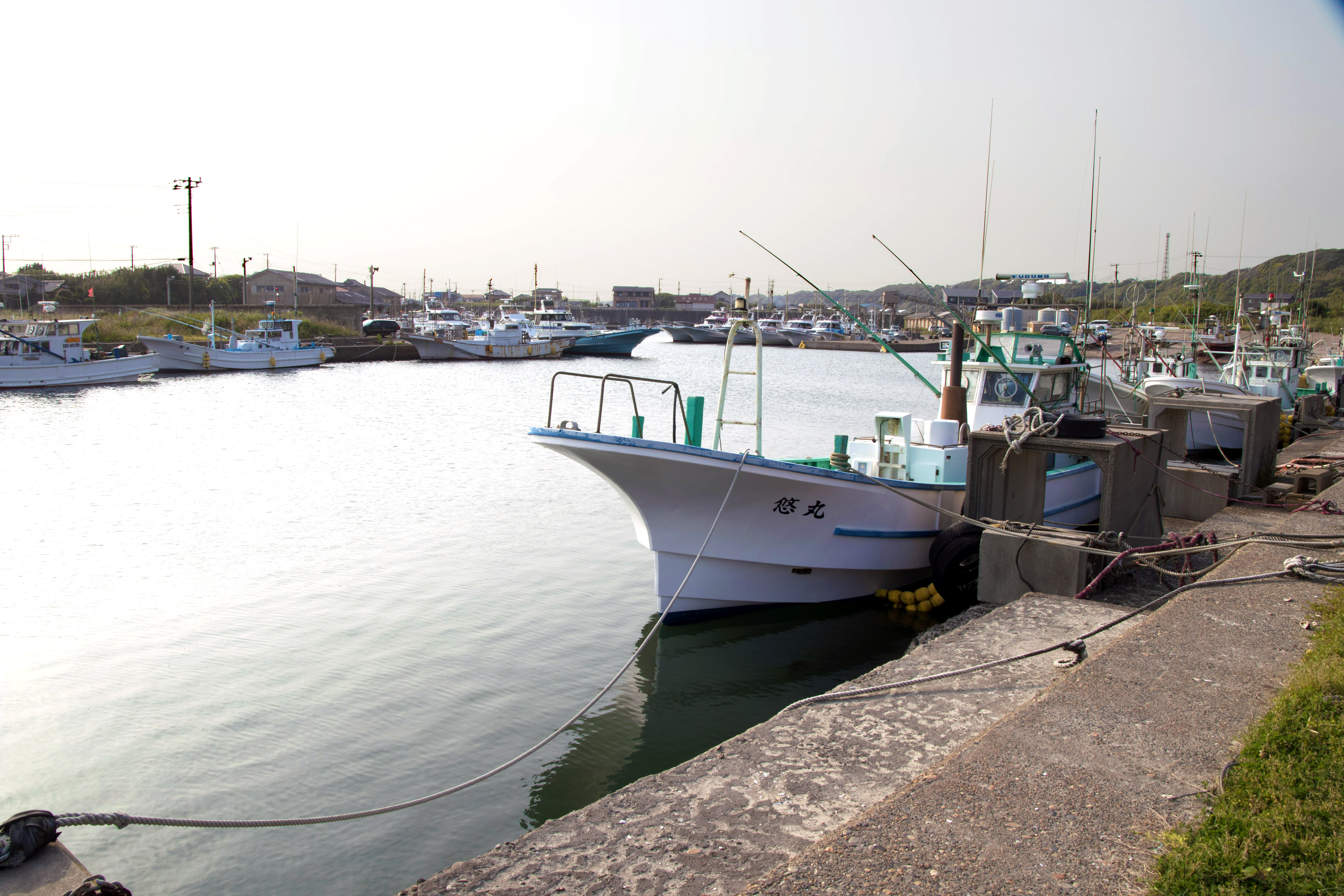 Iioka Fishing Port in Asahi City, Chiba Prefecture, Japan